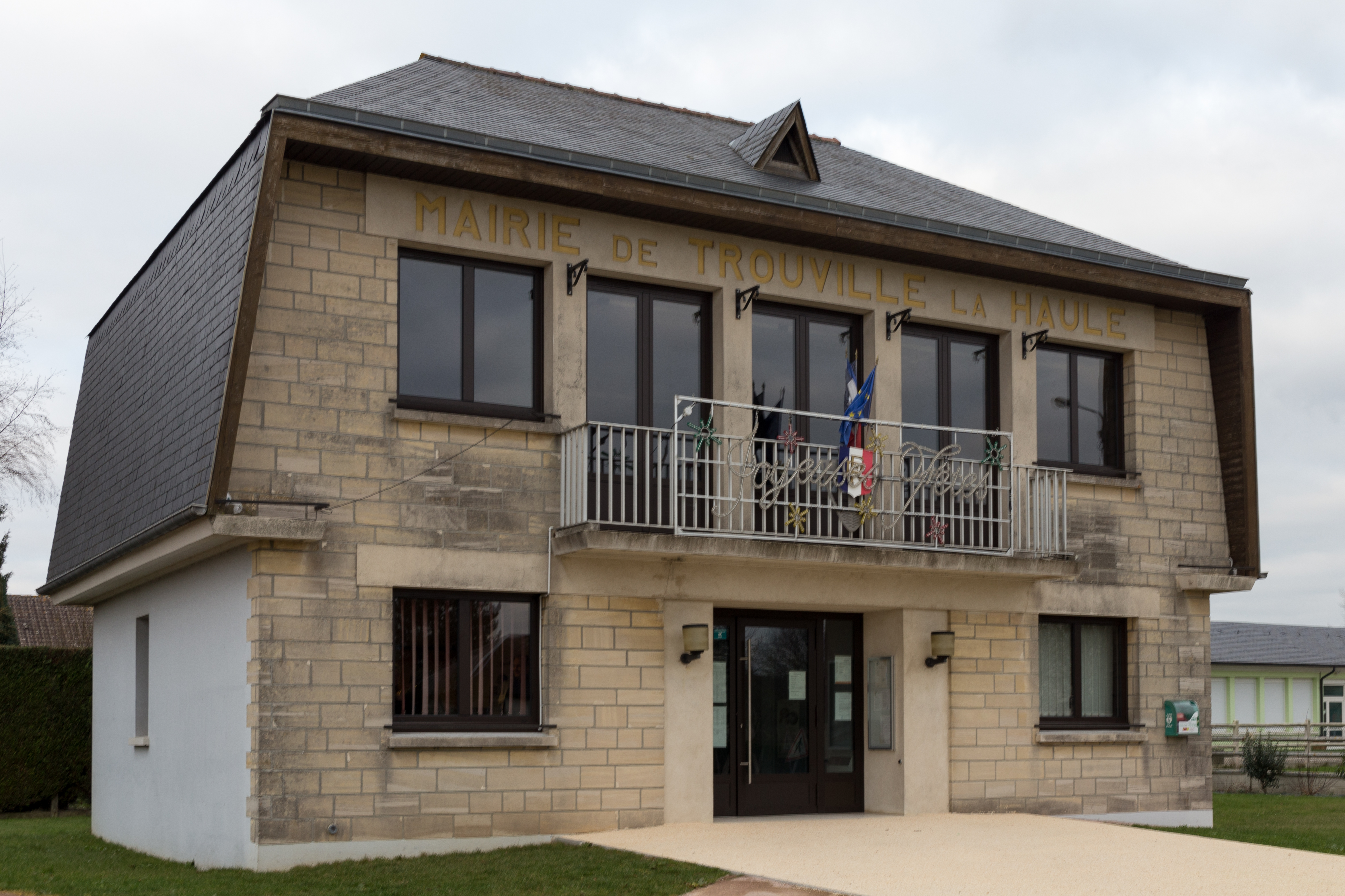 Town hall of Trouville-la-Haule.